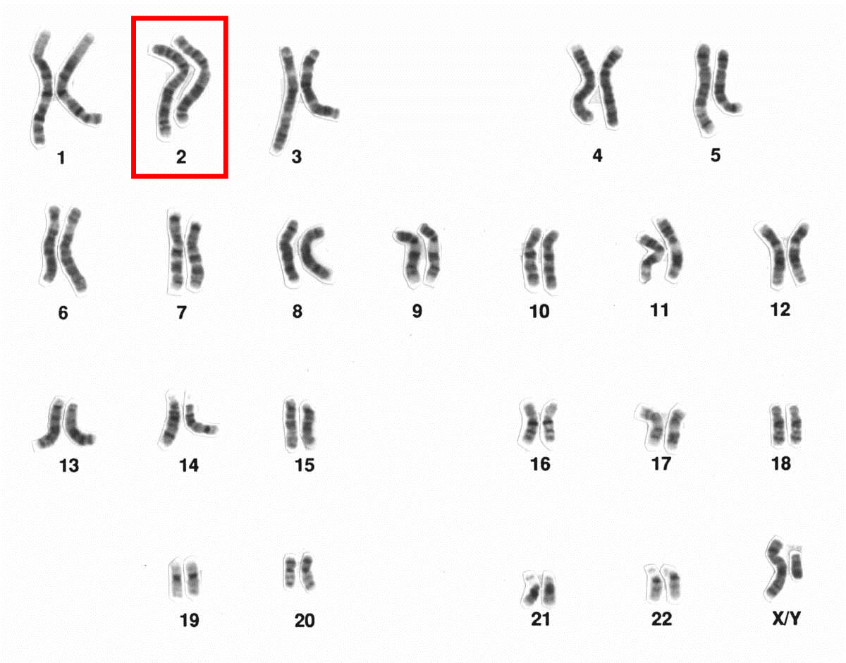 Human male Karyotype after G-banding. Chromosome 2 highlighted